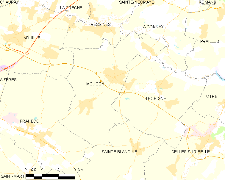 Map of French municipality Mougon